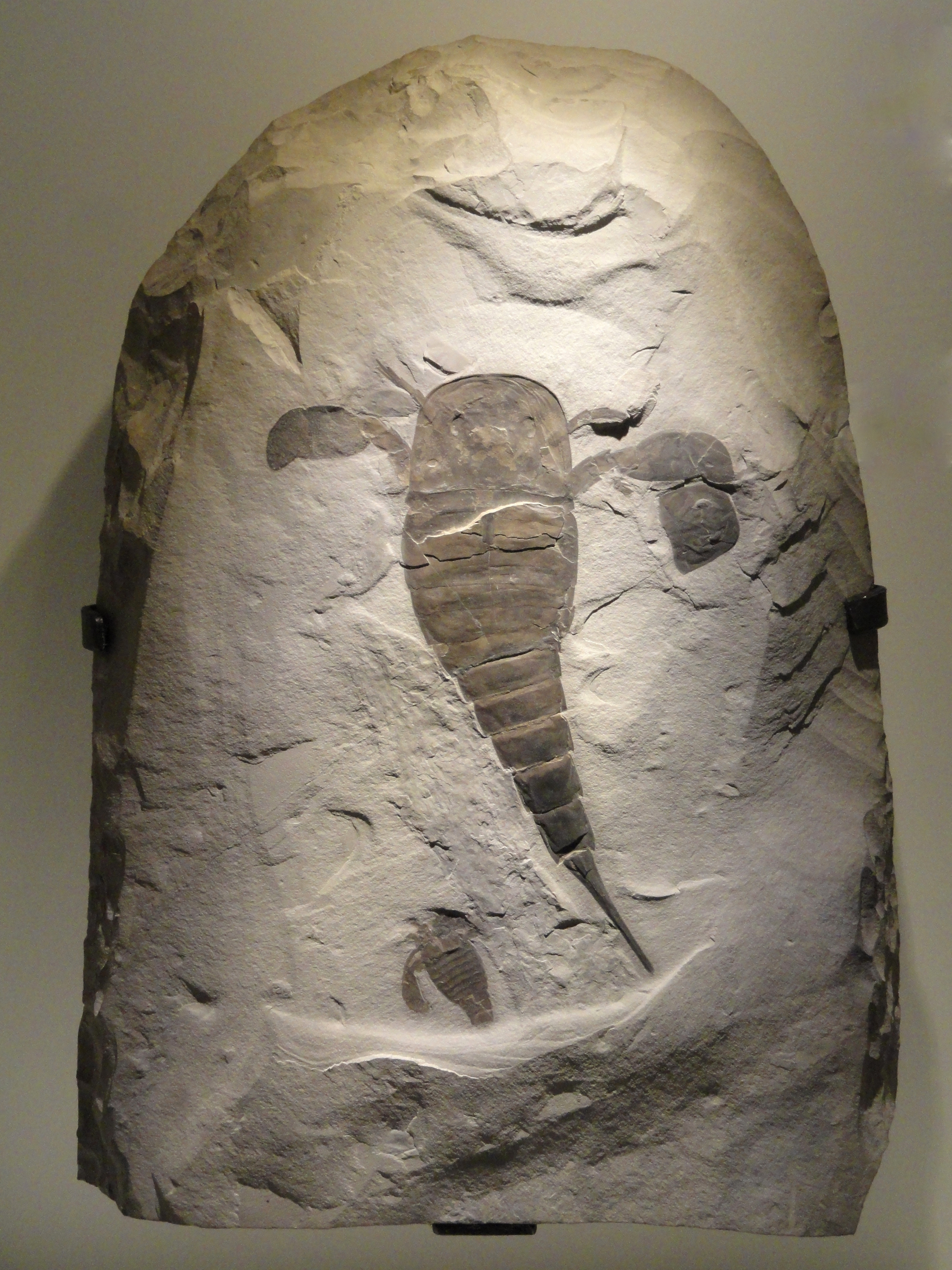 Exhibit in the Houston Museum of Natural Science, Houston, Texas, USA.